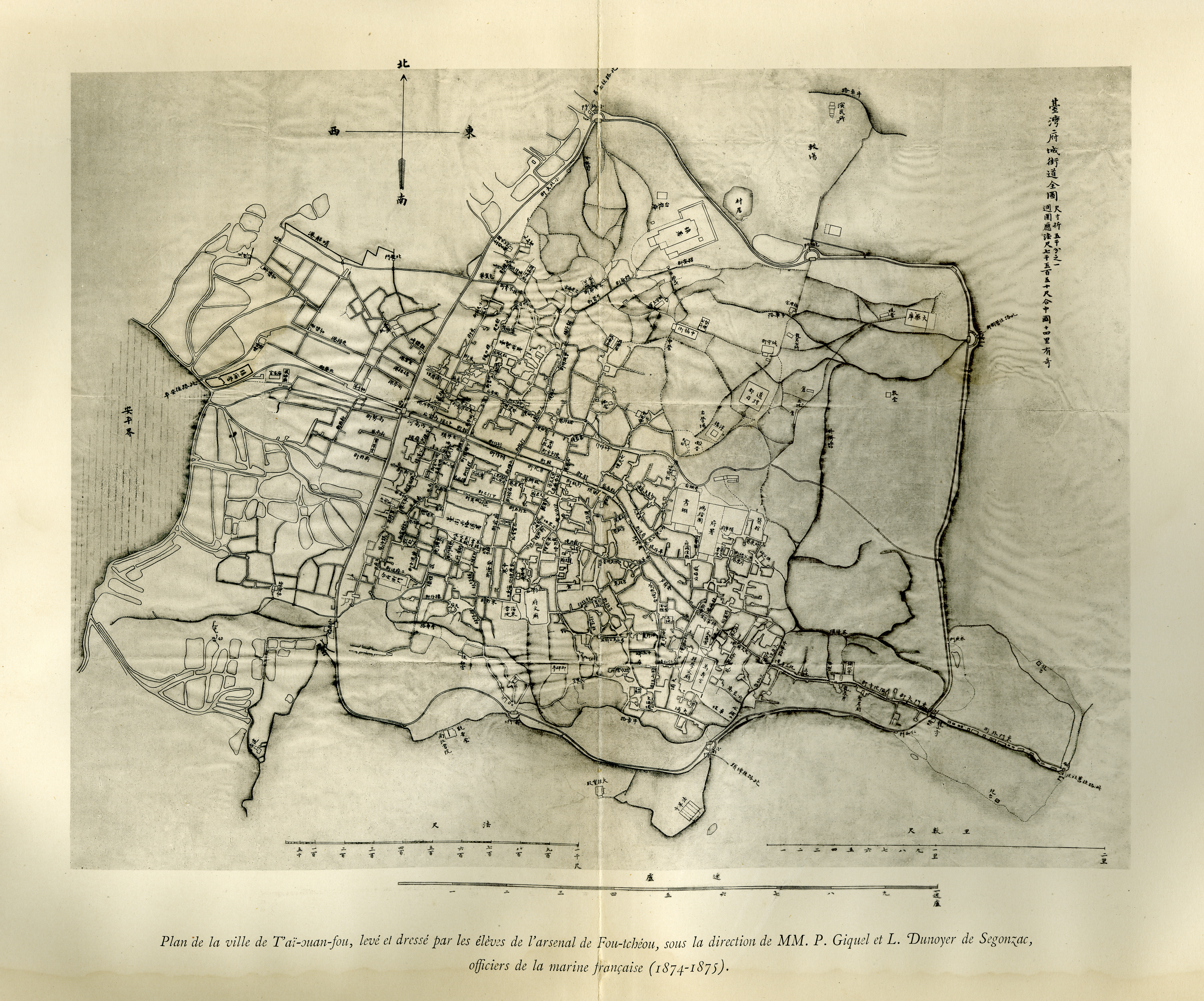 Plan of the village of Taiwanfou (Tainan City, Taiwan currently)